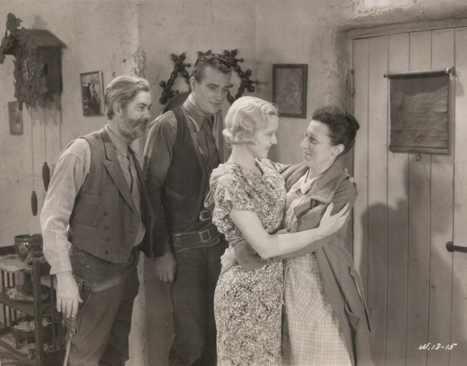 L. to R. : Gabby Hayes, John Wayne, Lucile Browne & Fern Emmett in Texas Terror - publicity still (cropped)